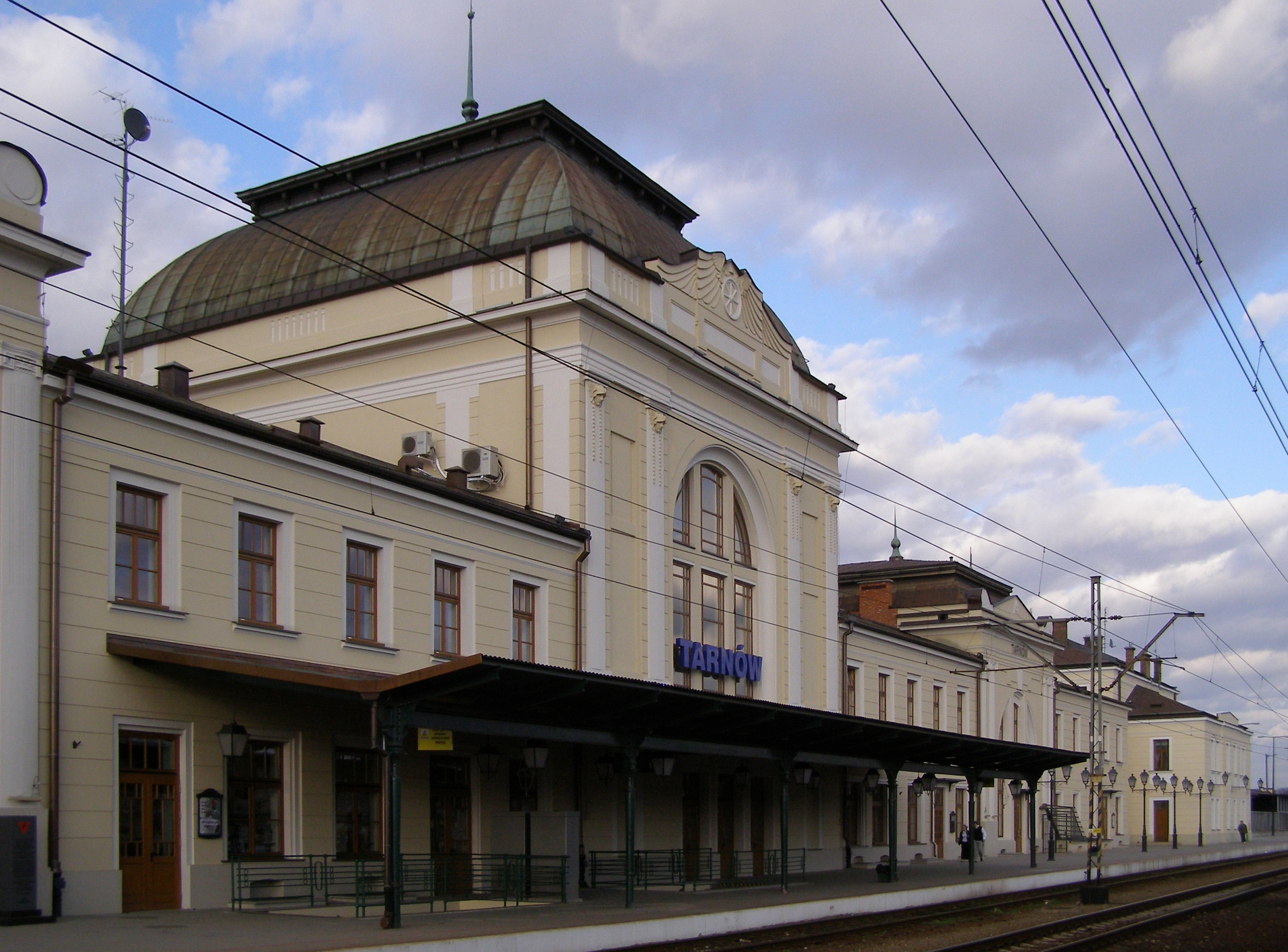 Tarnów - railway station seen from the platforms side